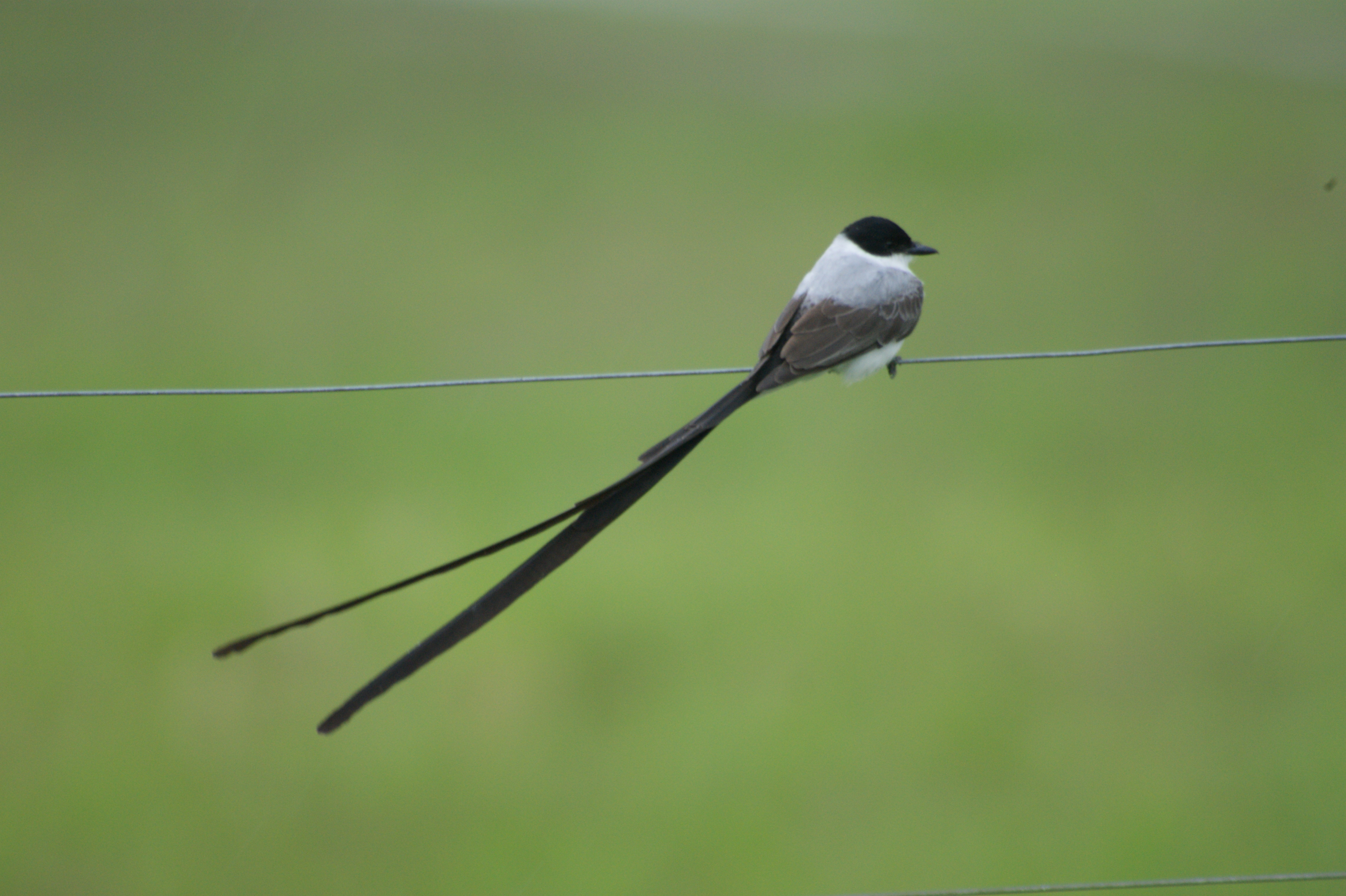 Fork-tailed Flycatcher perching on a wire in Colombia.